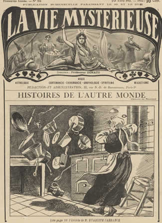 A 14-year-old domestic servant, Therese Selles, experiences poltergeist / spontaneous PK activity in the home of her employer, the Todeschini family at Cheragas, Algeria, as featured on the cover of the French magazine La Vie Mysterieuse in 1911.